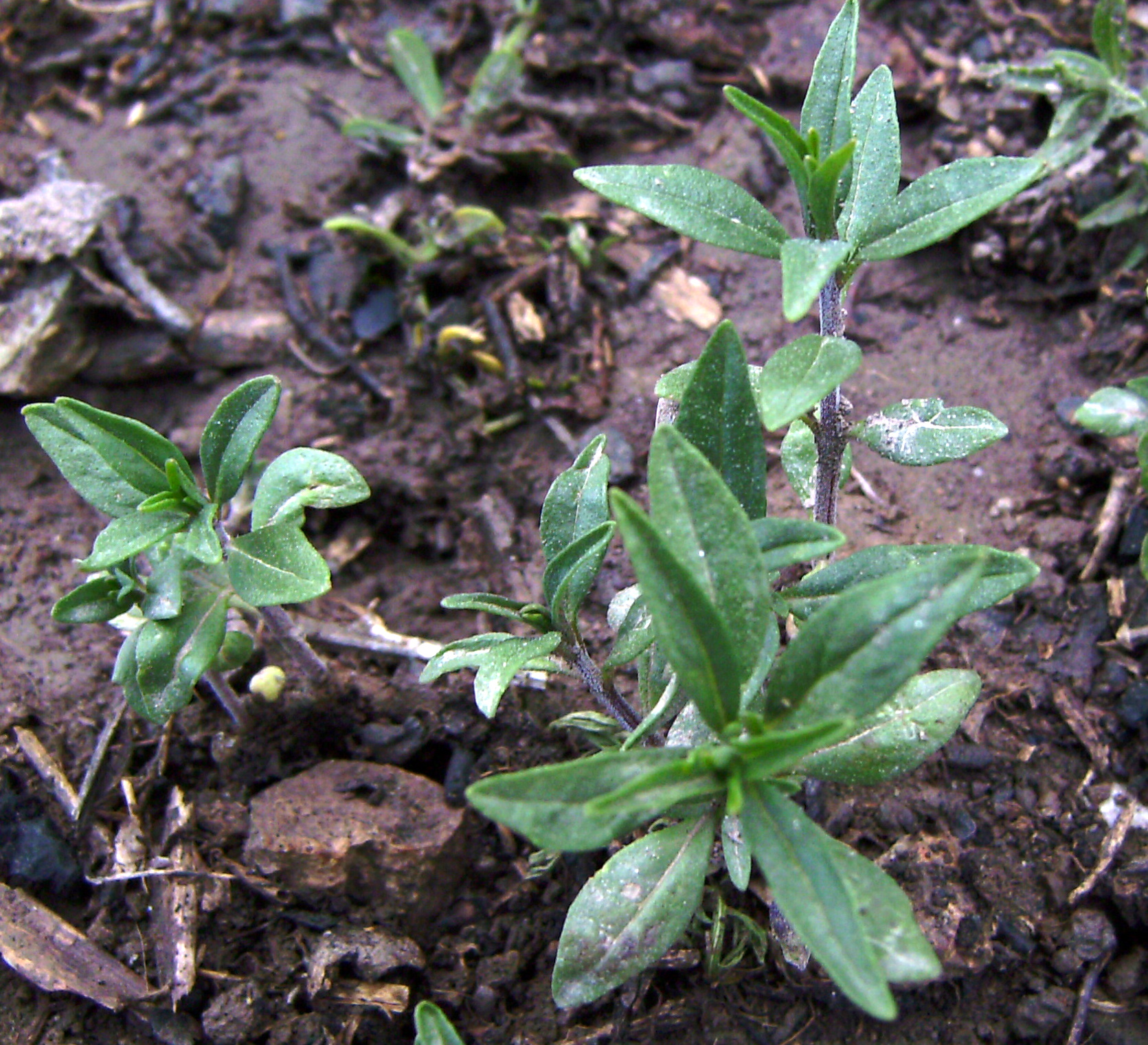 Satureja hortensis ,young plants, cultivated, Castelltallat, Catalonia